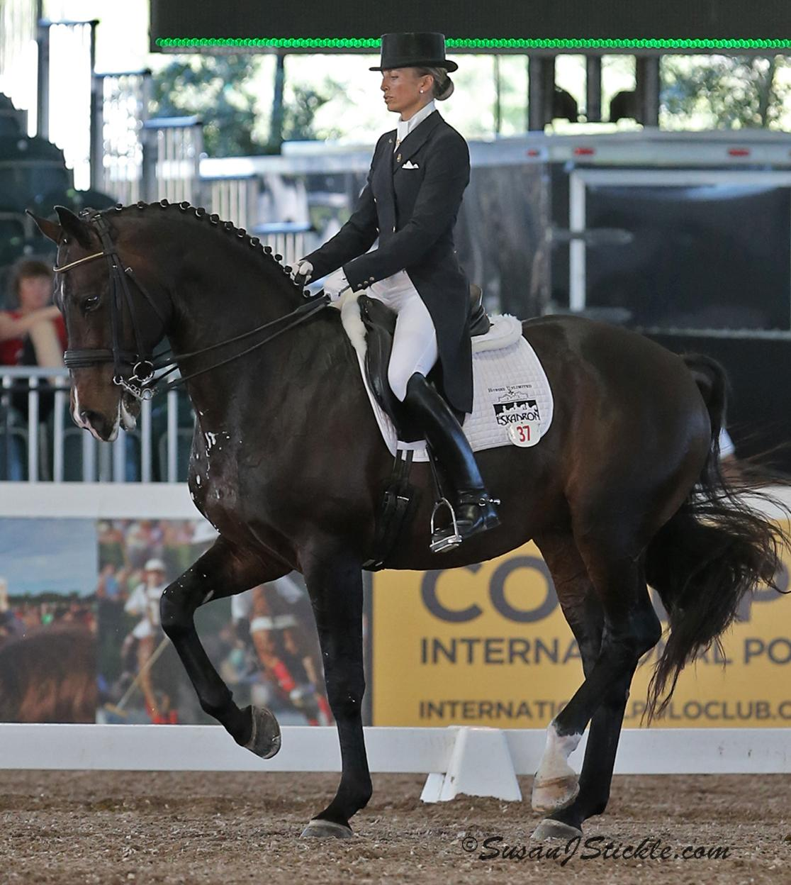 Lisa Wilcox riding Pikko del Cerro, CDI 3* West Palm Beach 2013